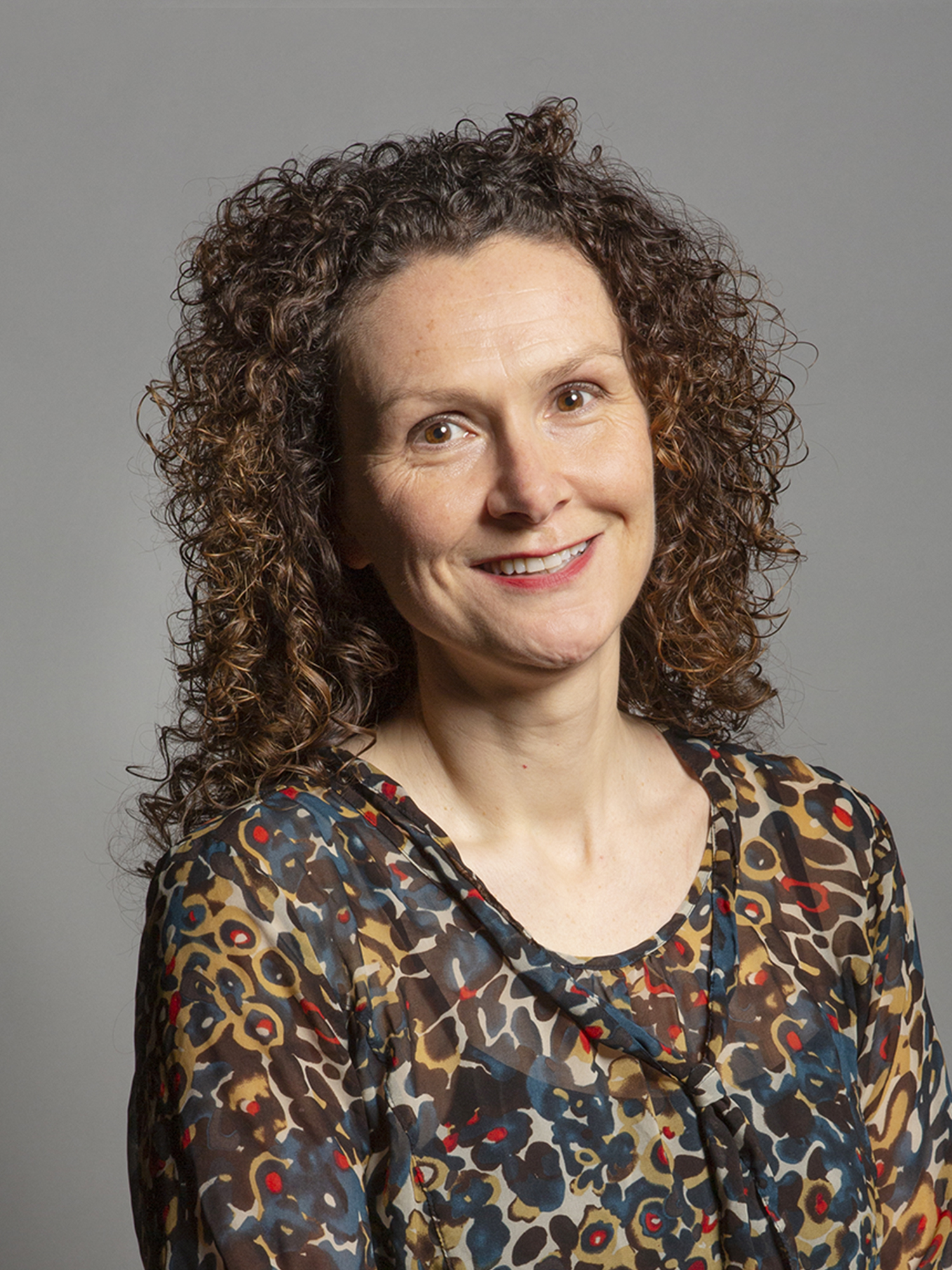 Official portrait of Wendy Chamberlain MP 3×4 portrait of Wendy Chamberlain